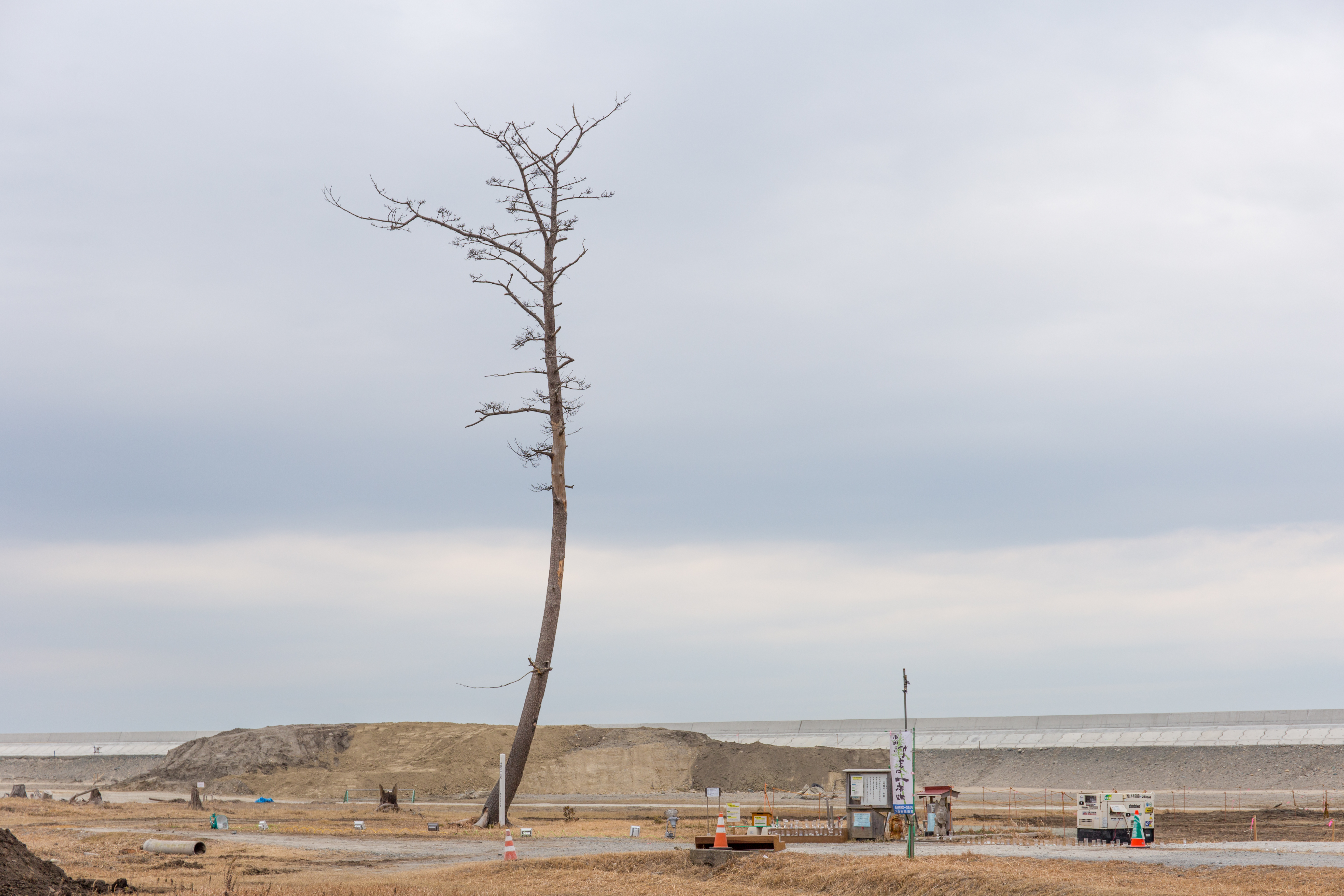 Kashima no Ipponmatsu (lit. "Lone Pine Tree of Kashima") in Minamisoma City, Fukushima Prefecture, Japan